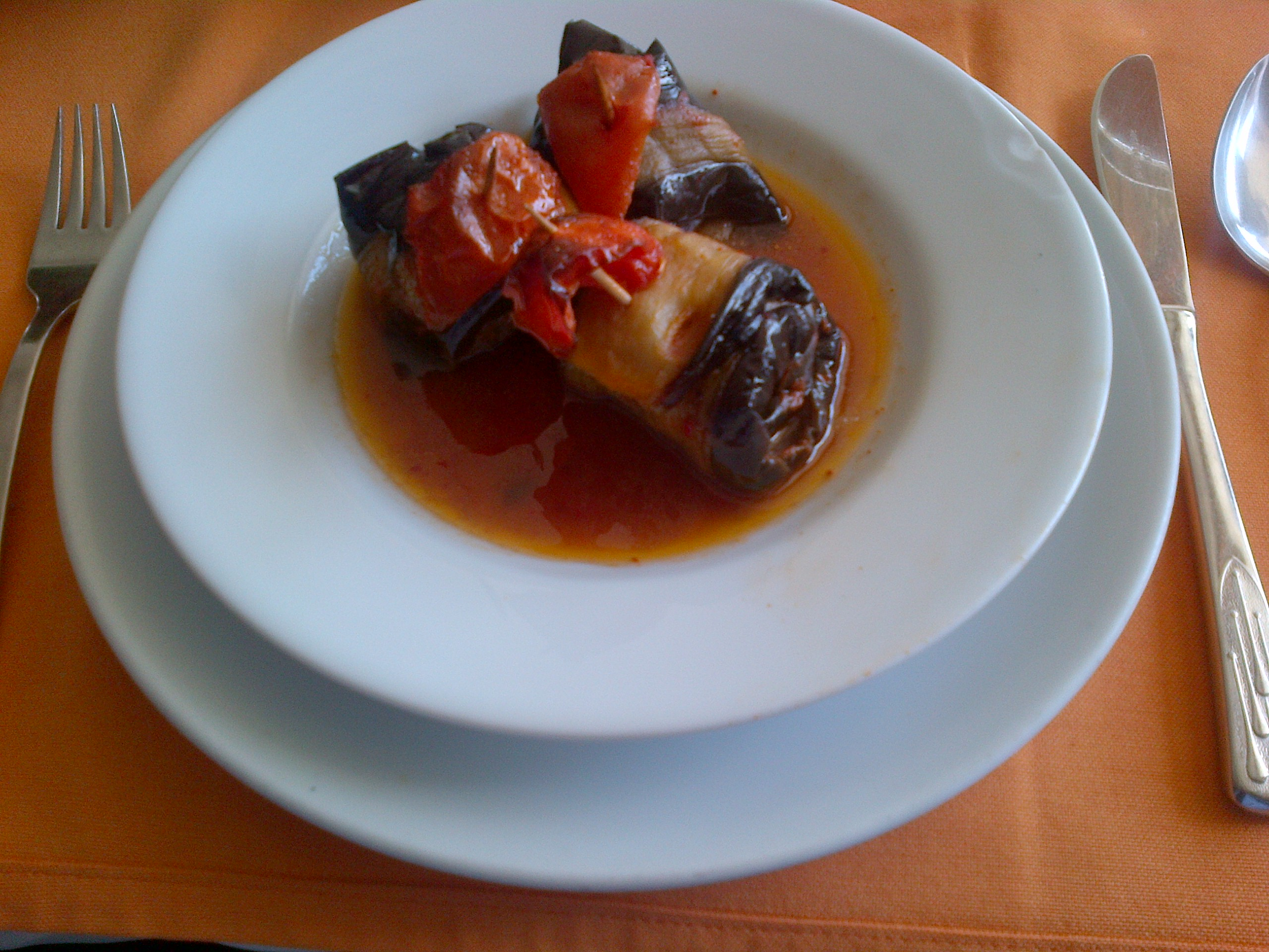 Patlıcan kebabı, from the Turkish cuisine